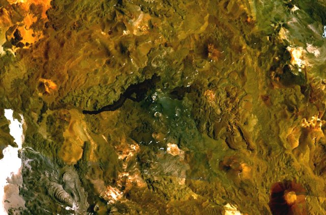 The volcanic complex in the center of this NASA Landsat composite image is Cordón del Azufre, a small volcanic center straddling the Chile-Argentina border. A dacitic lava-dome complex lies at the eastern side of the complex, in Argentina. The prominent dark-colored lava flow from Volcán la Moyra, the youngest feature of the volcanic field, descended 6 km into Chile and 3 km into Argentina. Lava flows from Bayo volcano to the SW are visible at the lower left.